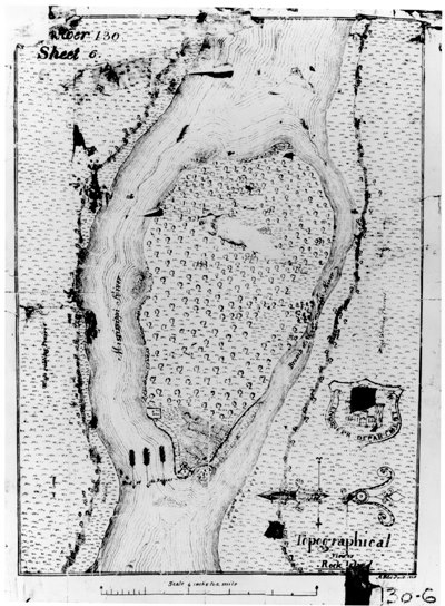 An 1820 map of the island of Rock Island. The Arsenal was not established yet, and Fort Armstrong was a mere 4 years old. Iowa is on the left, Illinois on the right with Fort Armstrong on the lower tip of the island.